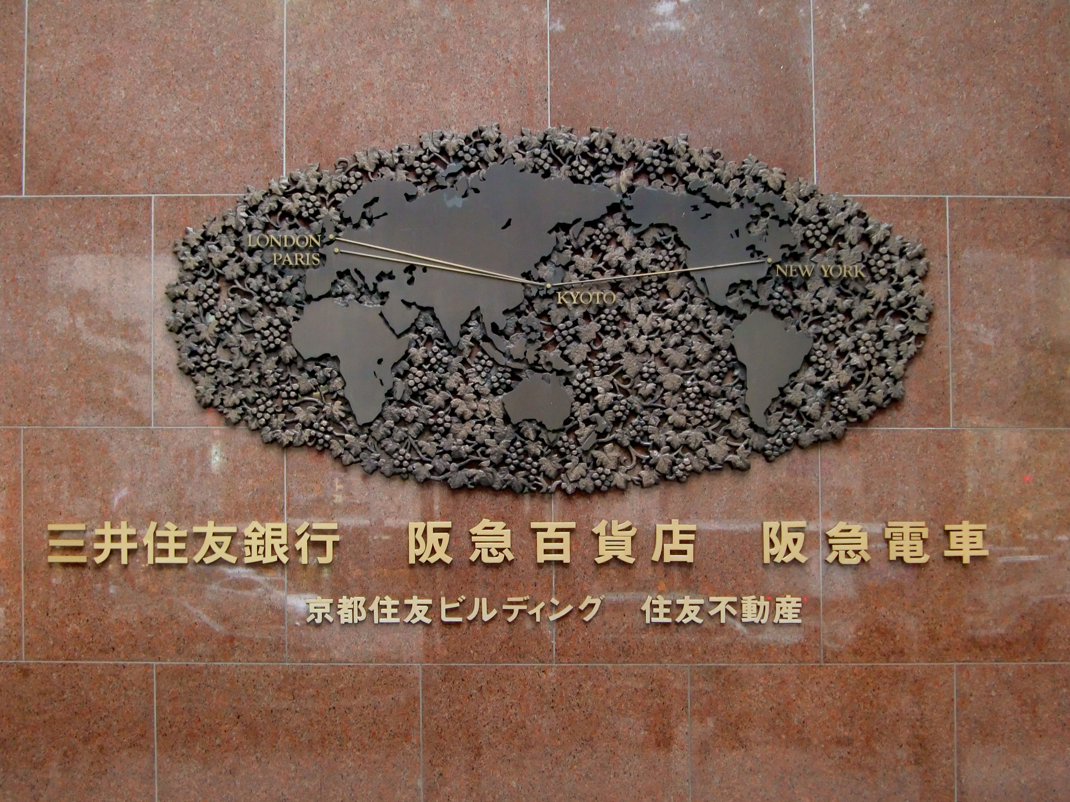 Shijo Kawaramachi Hankyu World Map(Kyoto Sumitomo Building), 68 Shinmachi Shijo-Kawaramachi-higashiiru Shimogyo-ku Kyoto-City Kyoto JAPAN.